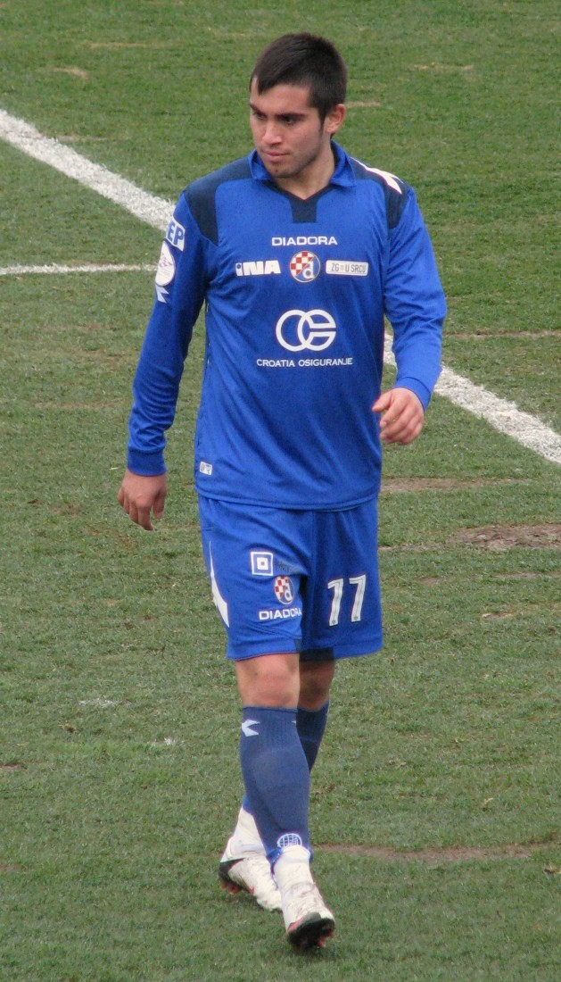 Pedro Morales